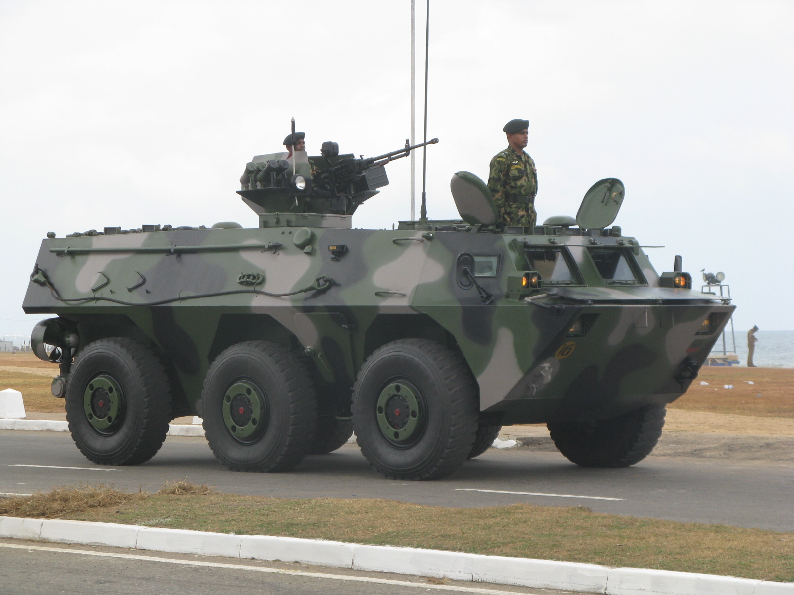 WZ551 (Type 92) Armoured Personnel Carrier - Sri Lanka Army